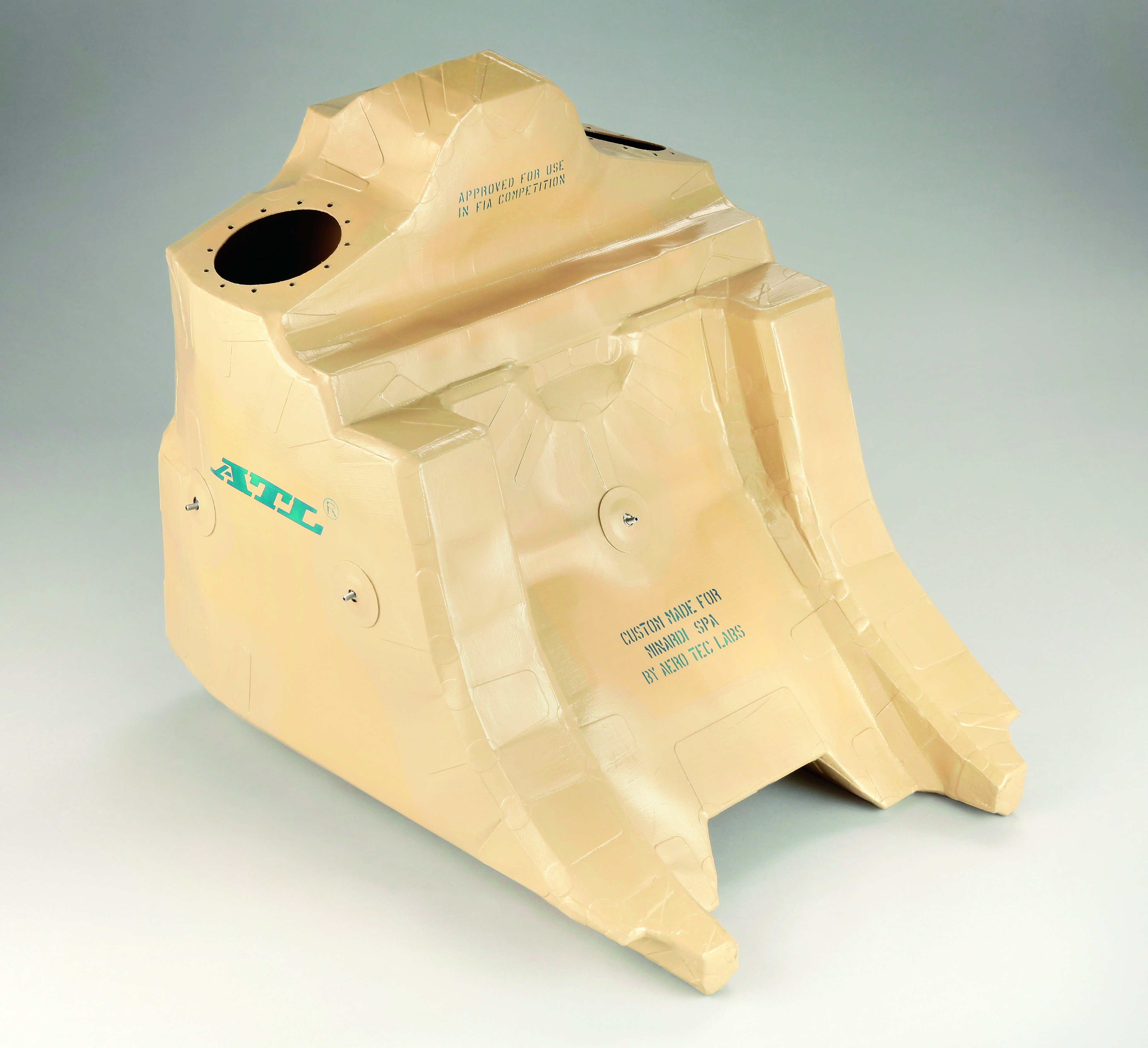 Typical Formula One "crash-worthy" FIA FT5-1999 fuel bladder produced by ATL (Aero Tec Laboratories) ([1]).